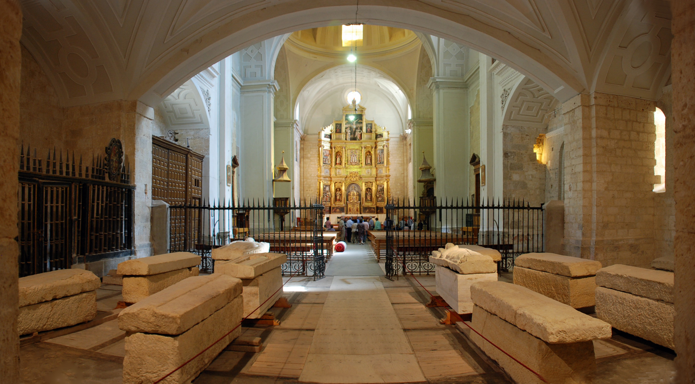 La Galilea. Tombs of Banu Gómez Earls in Monastery of Saint Zoilo of Carrión de los Condes (Palencia, Castile and León).